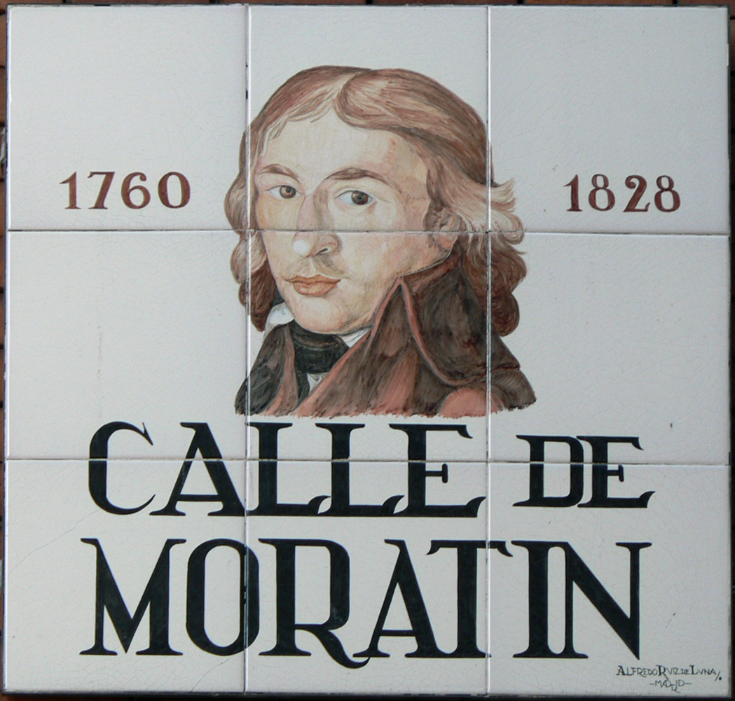 Sign of Calle de Moratín (street, Centro district) in Madrid (Spain).